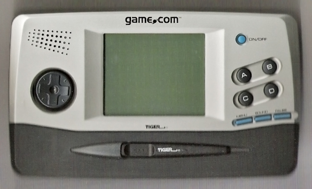 A scan of a .